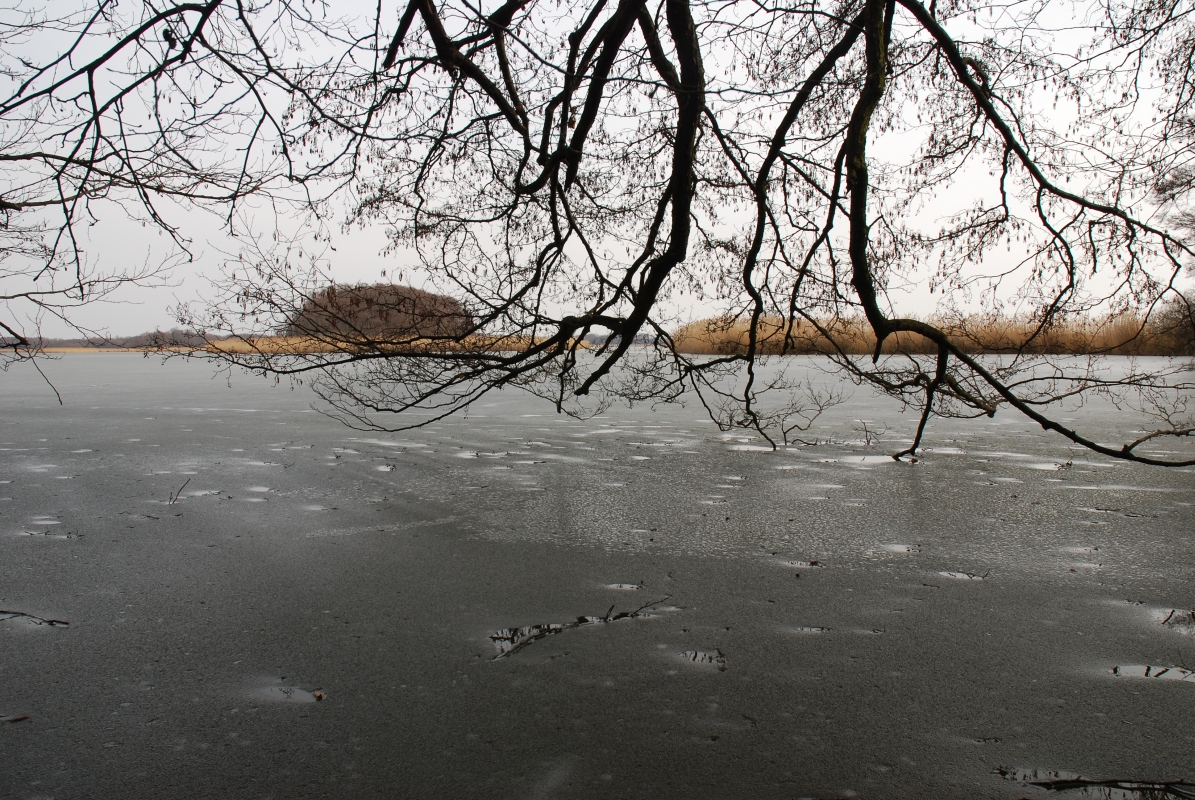 Thin ice on Pond Grabownica in Nature reserve "Ponds of Milicz".